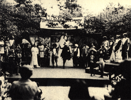 Riverside Shakespeare Company's A Midsummer Night's Dream, 1978.